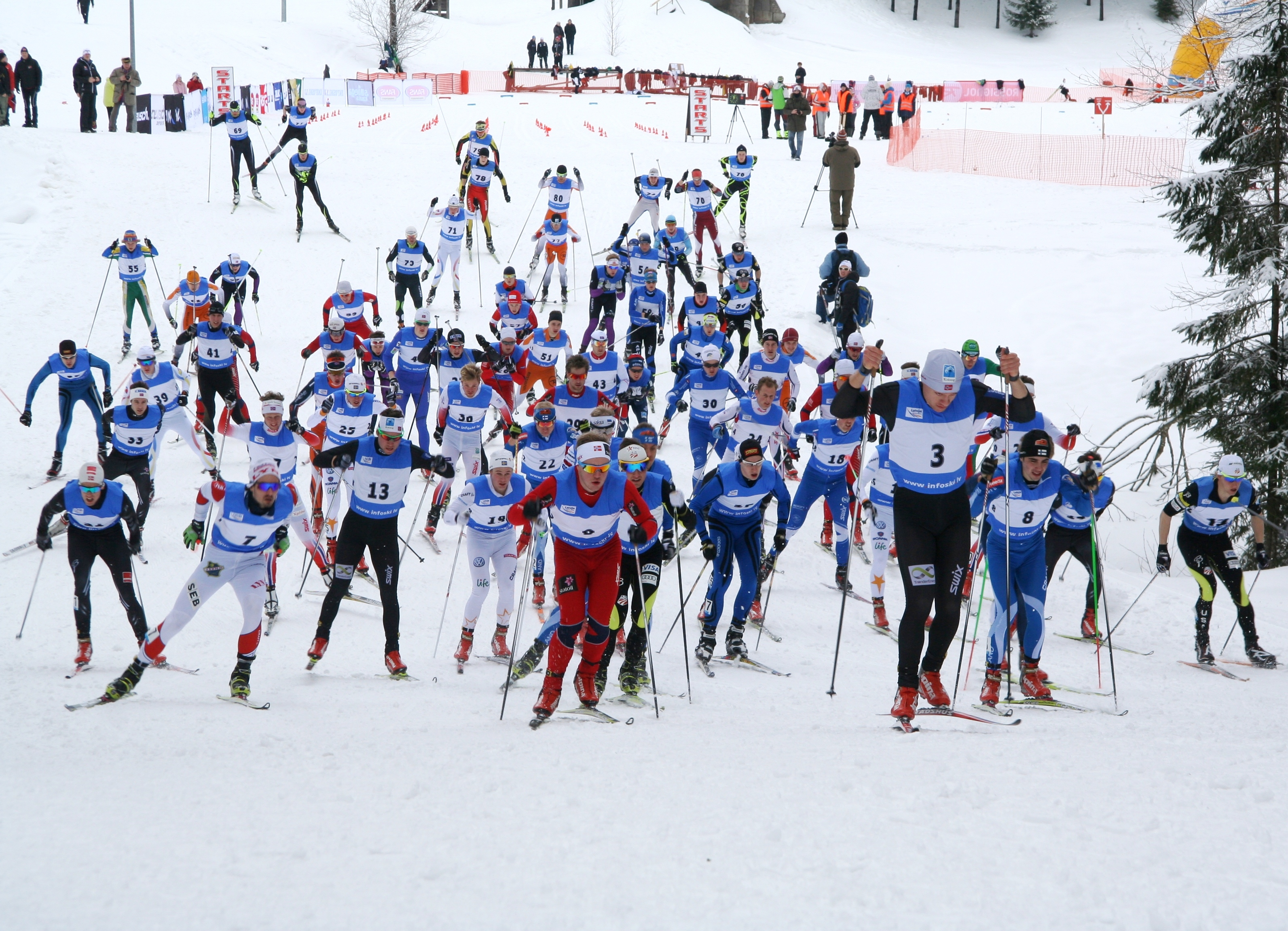 Nordic cross-country skii championship